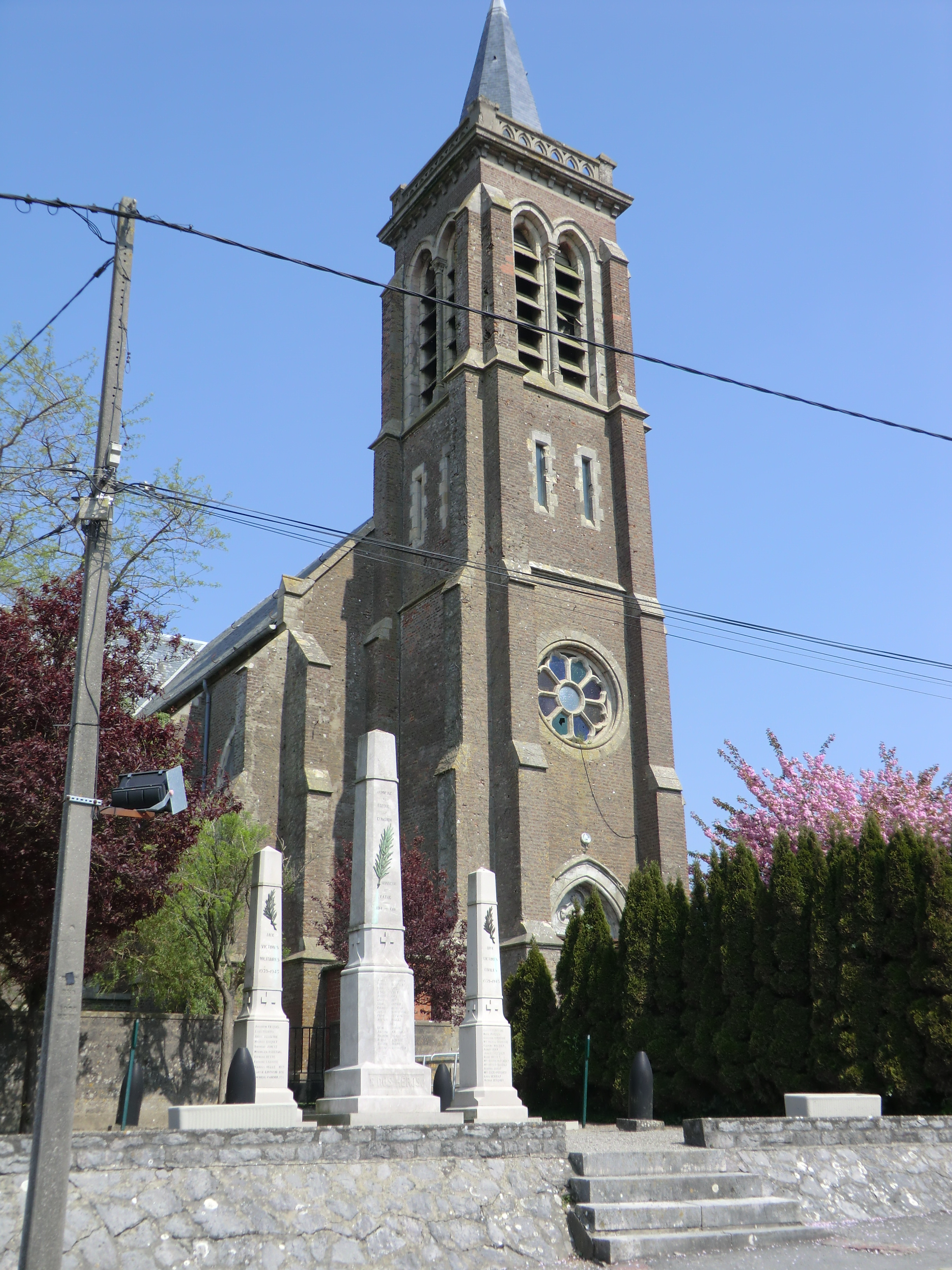 Church of Ferques, Pas-de-Calais, France